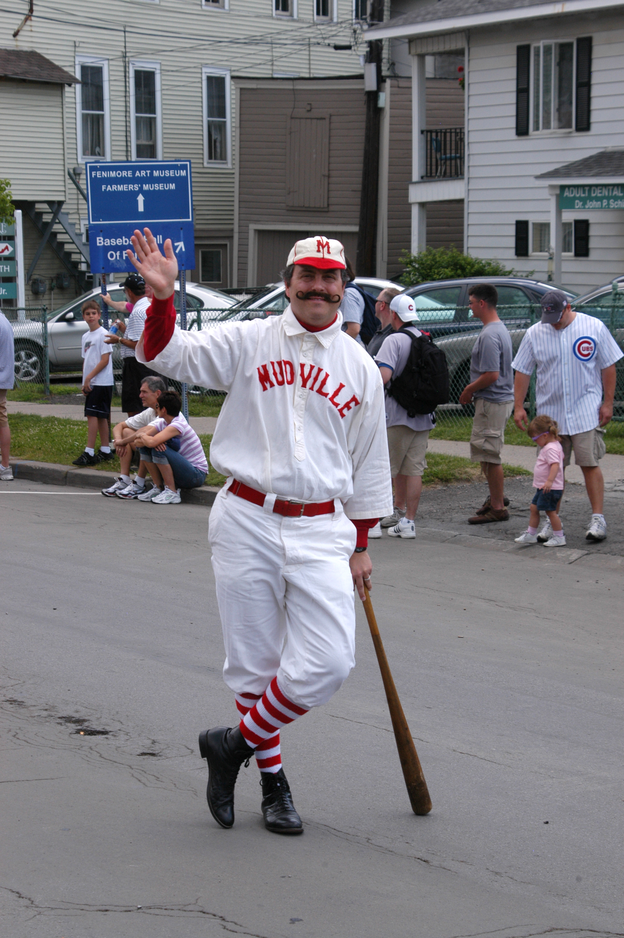 A role-player takes the guise of 'Casey', from Ernest Lawrence Thayer's story "Casey at the Bat" during the 2008 baseball Hall of Fame game June 16.